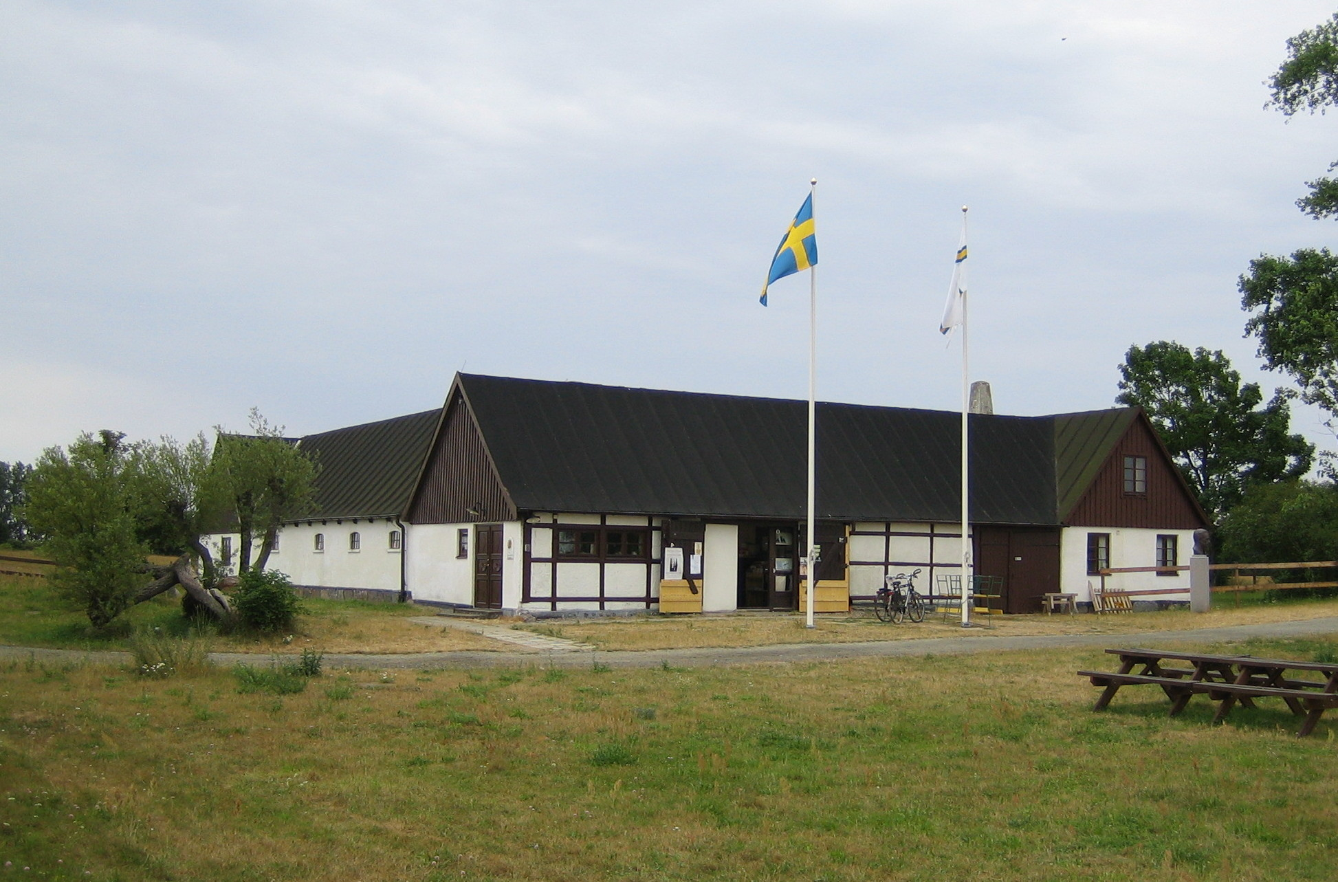 Picture of Dag Hammarskjölds backåkra, Hagestad, Skåne.